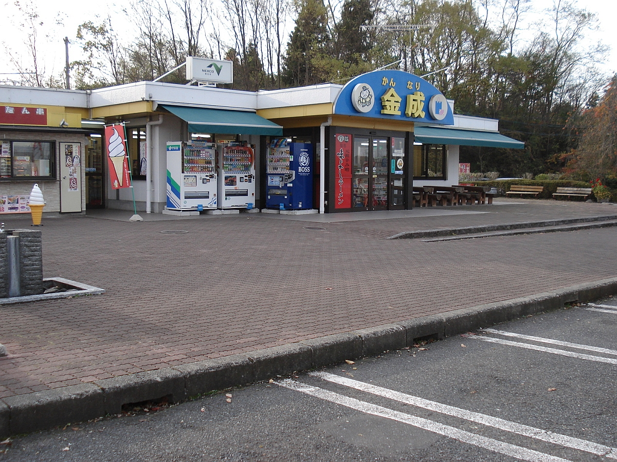 This rest area, Kannari Parking Area（for Aomori）, is on Tohoku Expressway, in Kurihara city, Miyagi Prefecture, Japan.